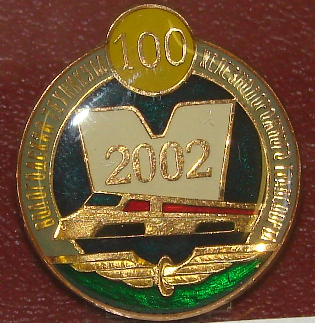 Russia, Vologda, Locomotive depot museum, A memorial sign in honor of 100 anniversary Vologda Railway College